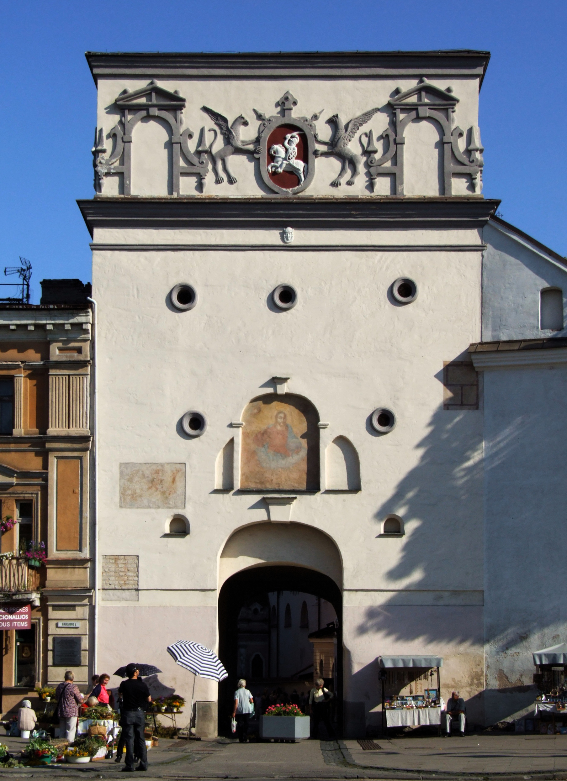 Vilnius (Wilno) - Gate of Dawn (Ostra Brama, Aušros vartai)